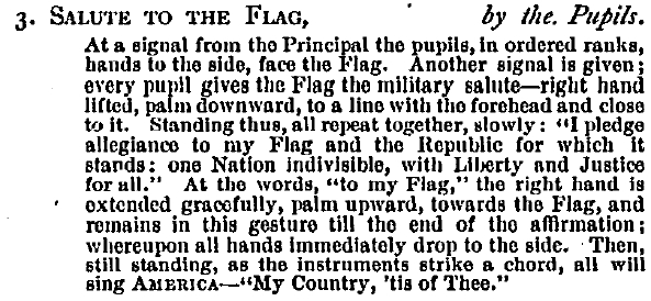 An excerpt from the September 8, 1892 Youth's Companion with the original Pledge of Allegiance (the full page is available from )